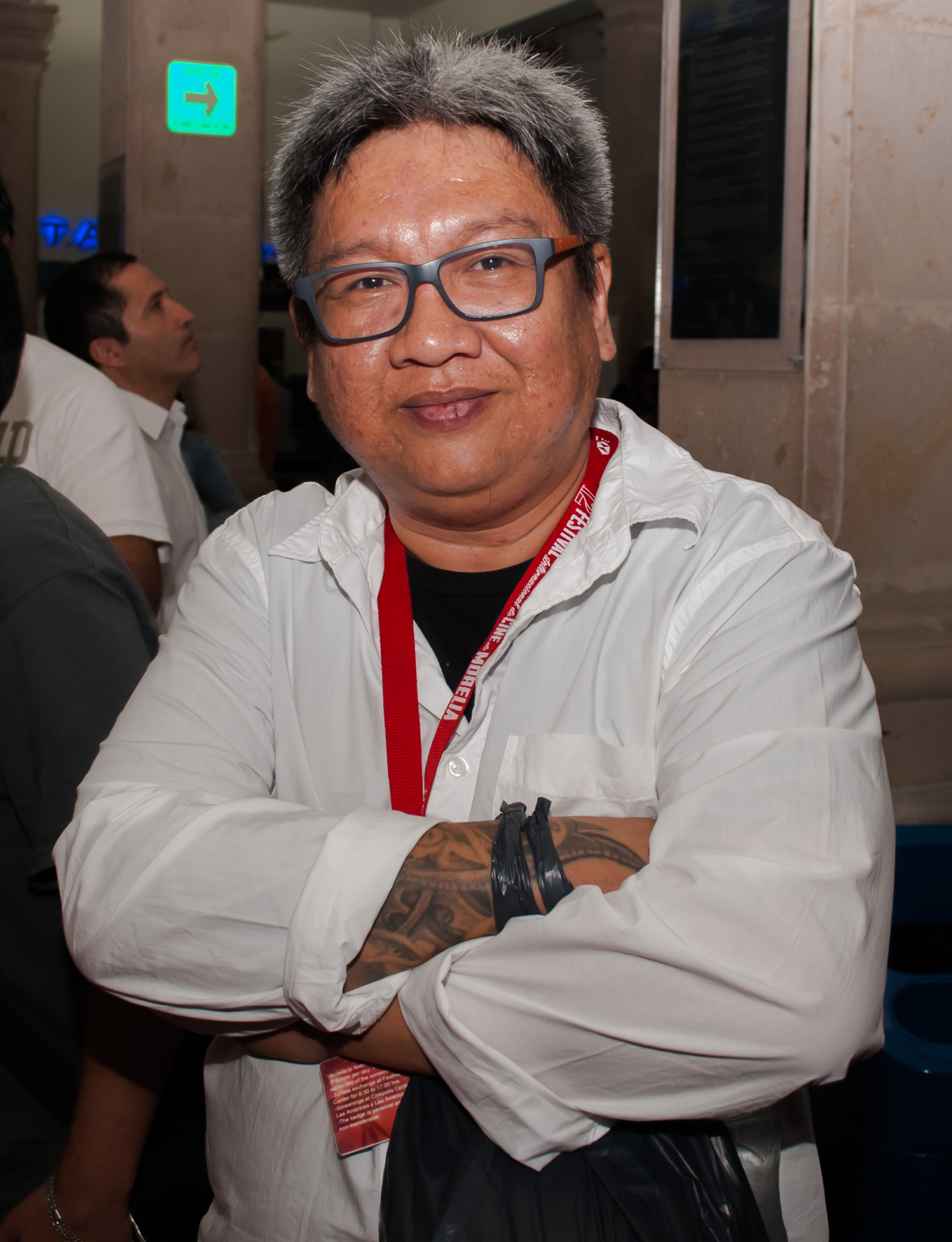 Después del estreno de su película, On the Job. FICM XII © Francisco Herrera